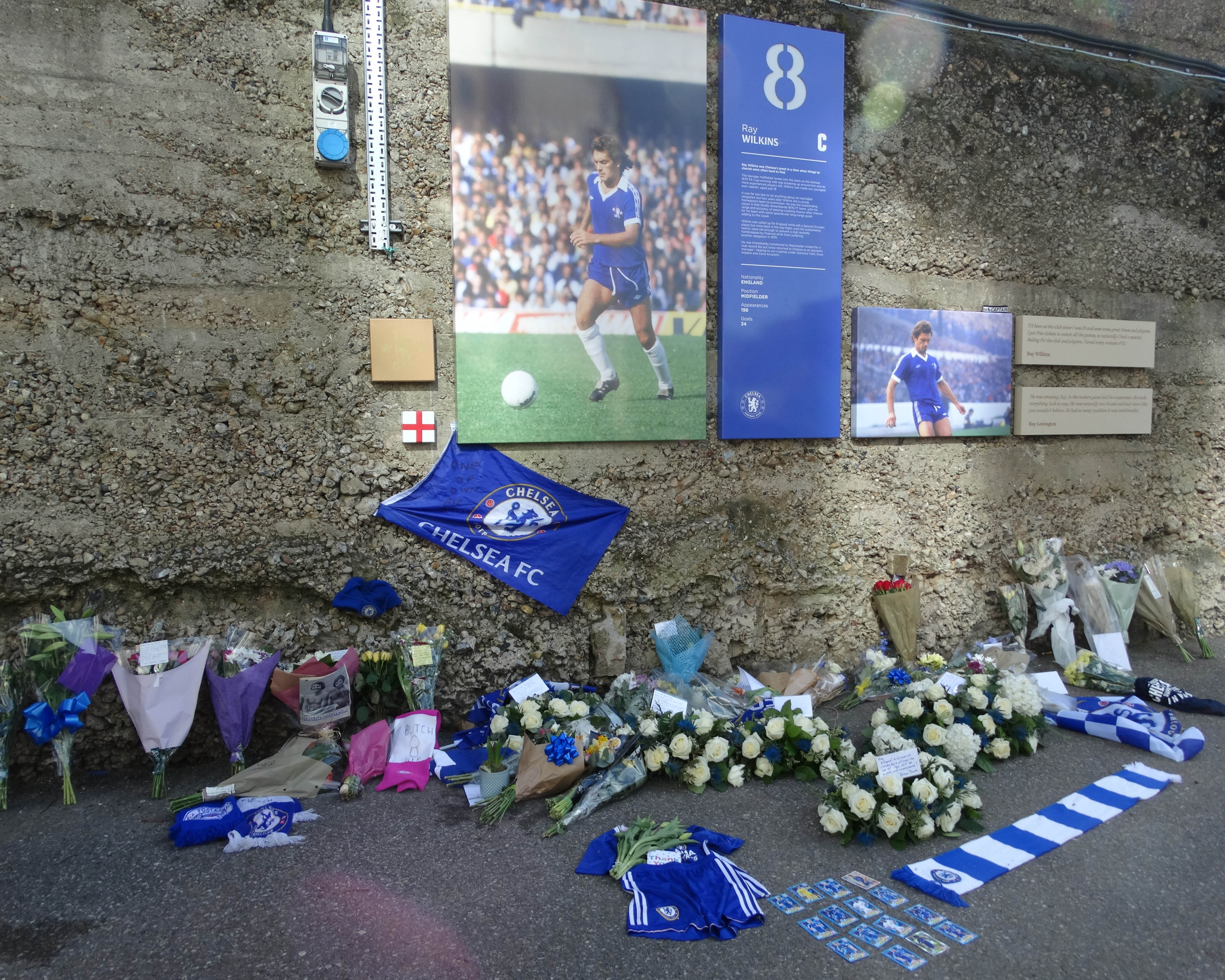 RIP Ray Wilkins - Flowers and tributes at the Shed Wall at Stamford Bridge 5.4.18